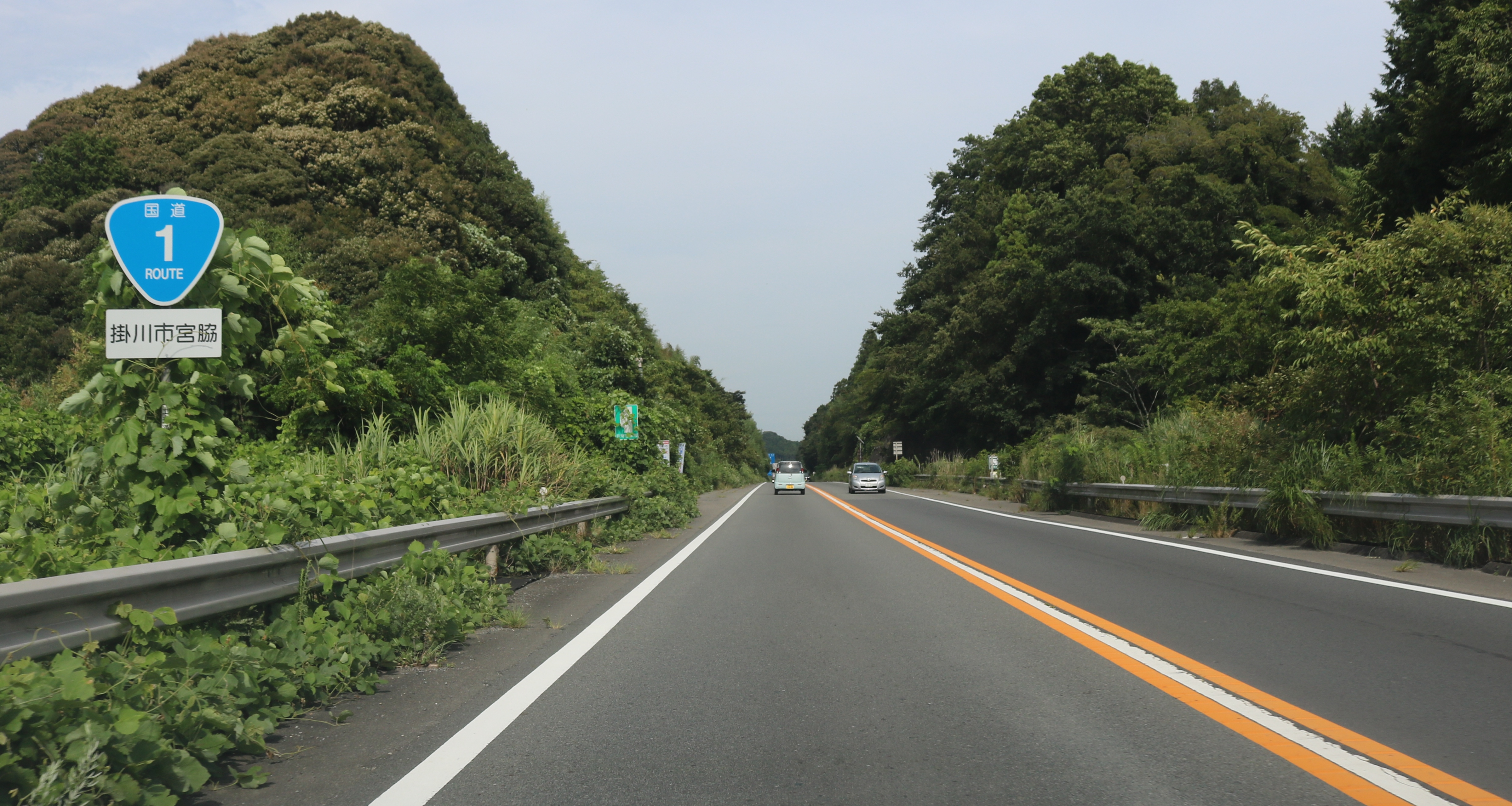 Kakegawa Byapss of Route 1 in Miyawaki, Kakegawa, Shizuoka Prefecture, Japan.